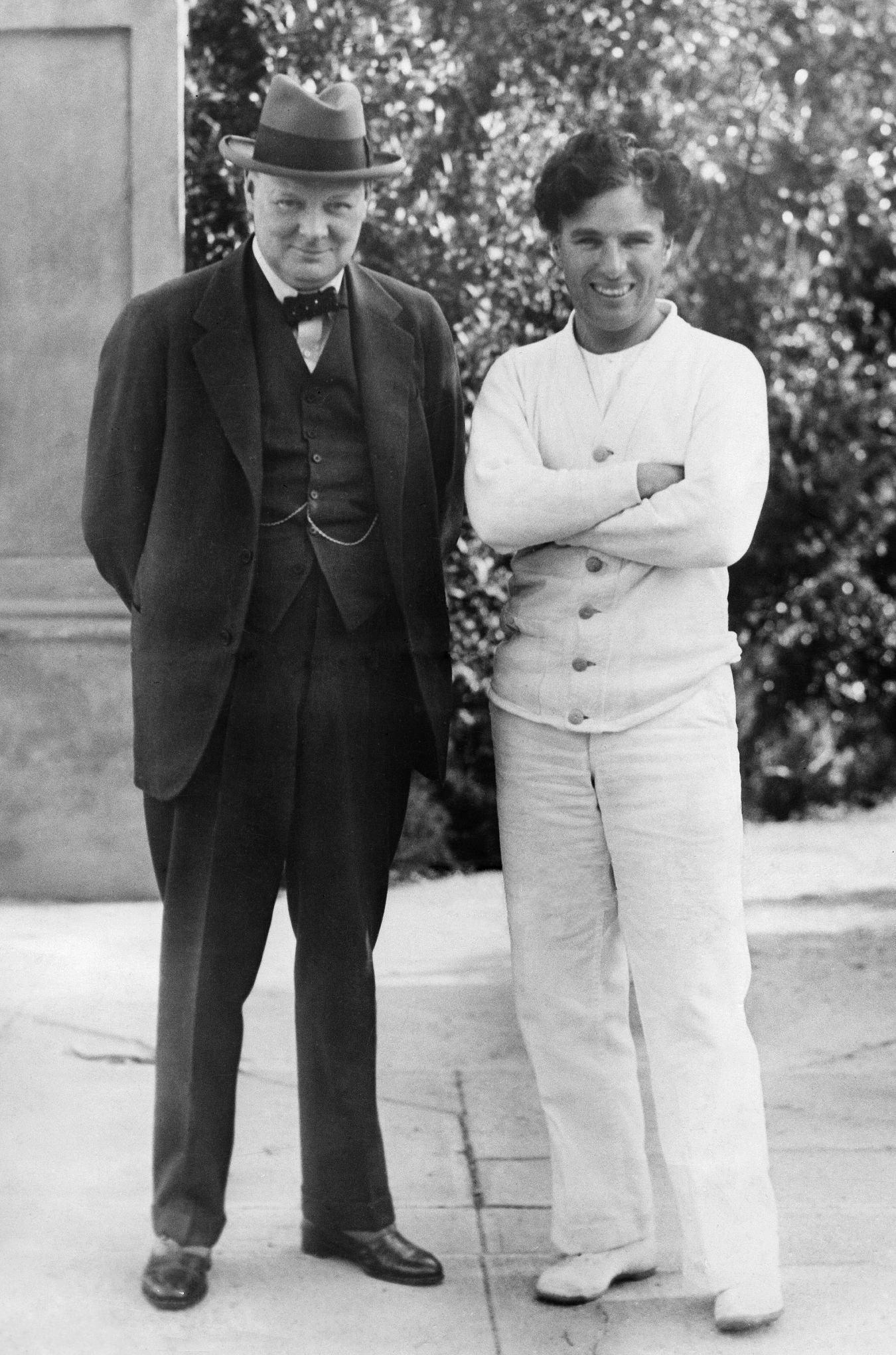 Winston Churchill visiting Charlie Chaplin in Hollywood in 1929.